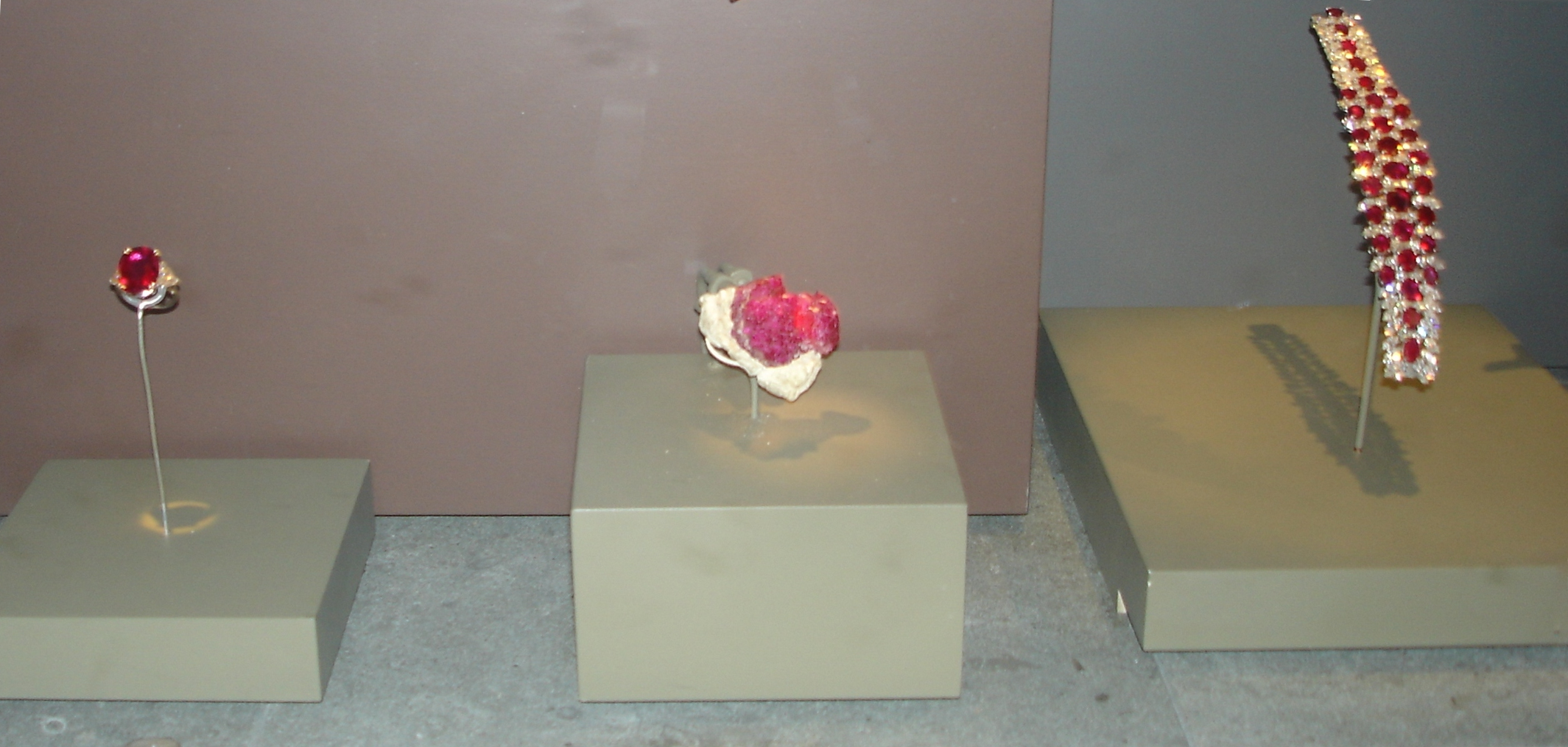 Rotated and Cropped version of this public domain photograph.